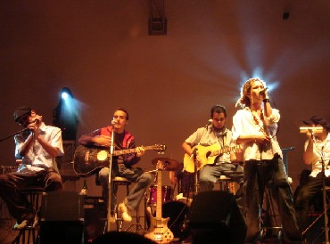 Calor Urbano Unplugged